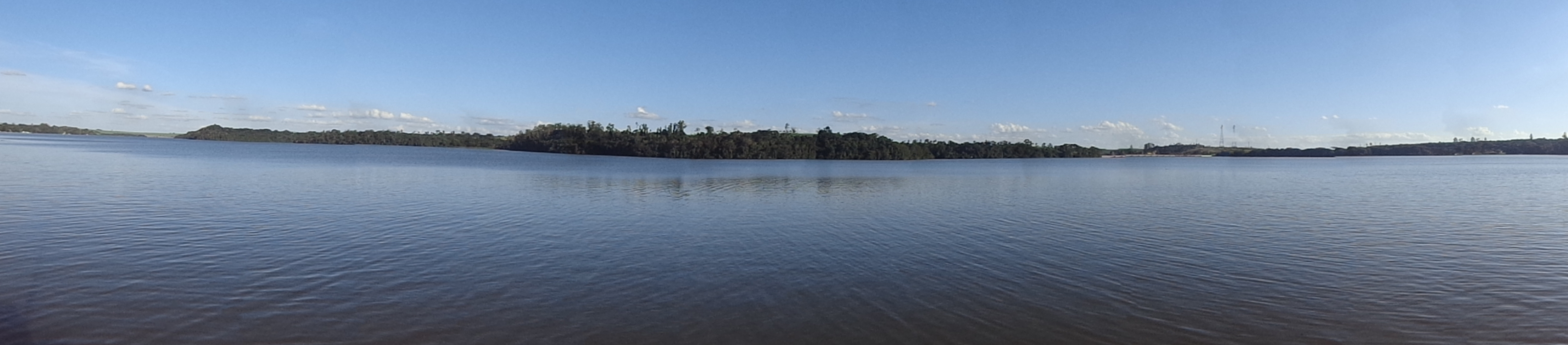 Overview of Paranapanema River in Salto Grande